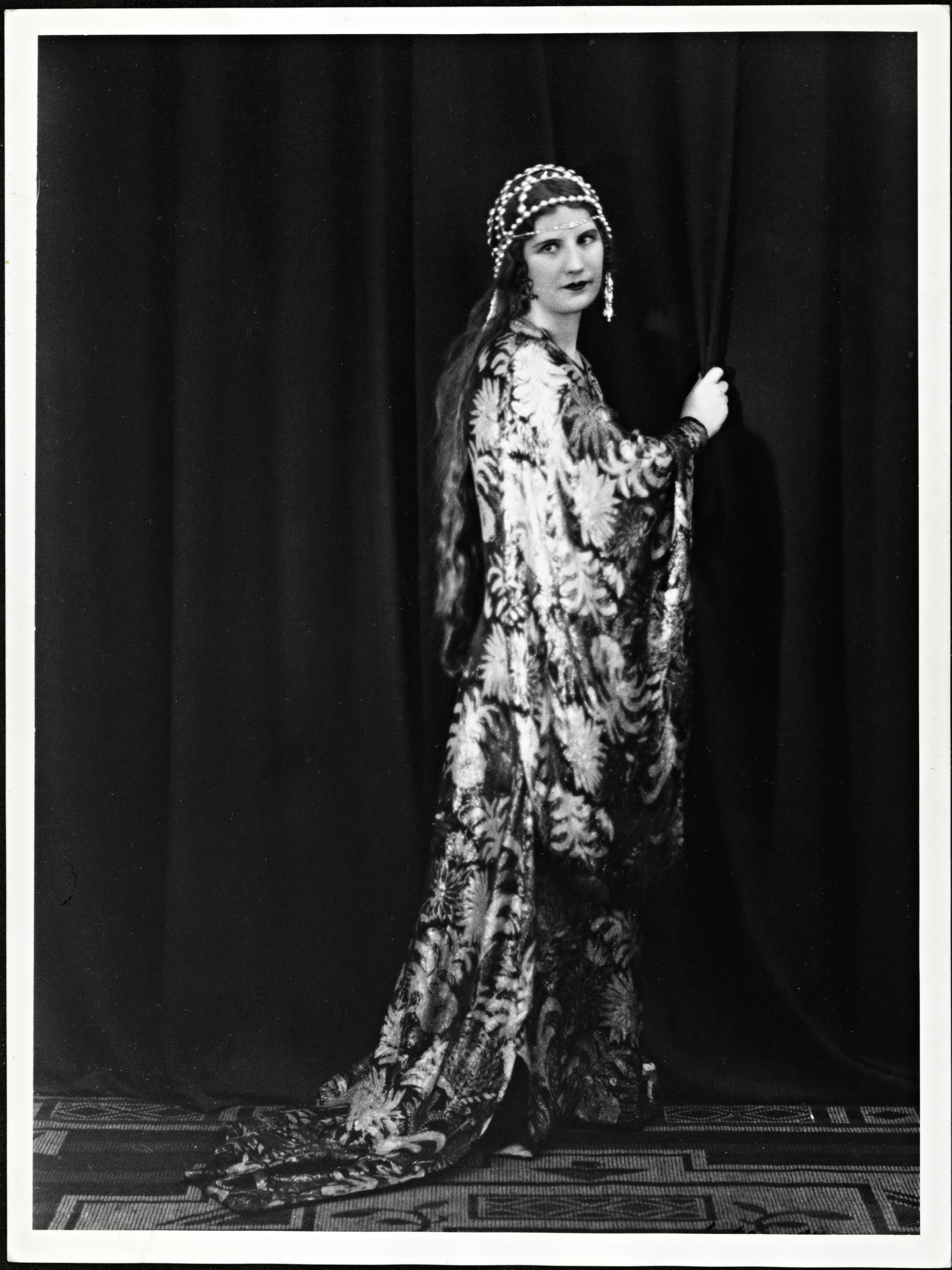 Kirsten Flagstad as Desdemona in Otello by Giuseppe Verdi. From Opera Comique, Oslo in 1921. Owner Institution: Nasjonalbiblioteket / National Library of Norway, image Number: blds_05687 Unknown photographer.